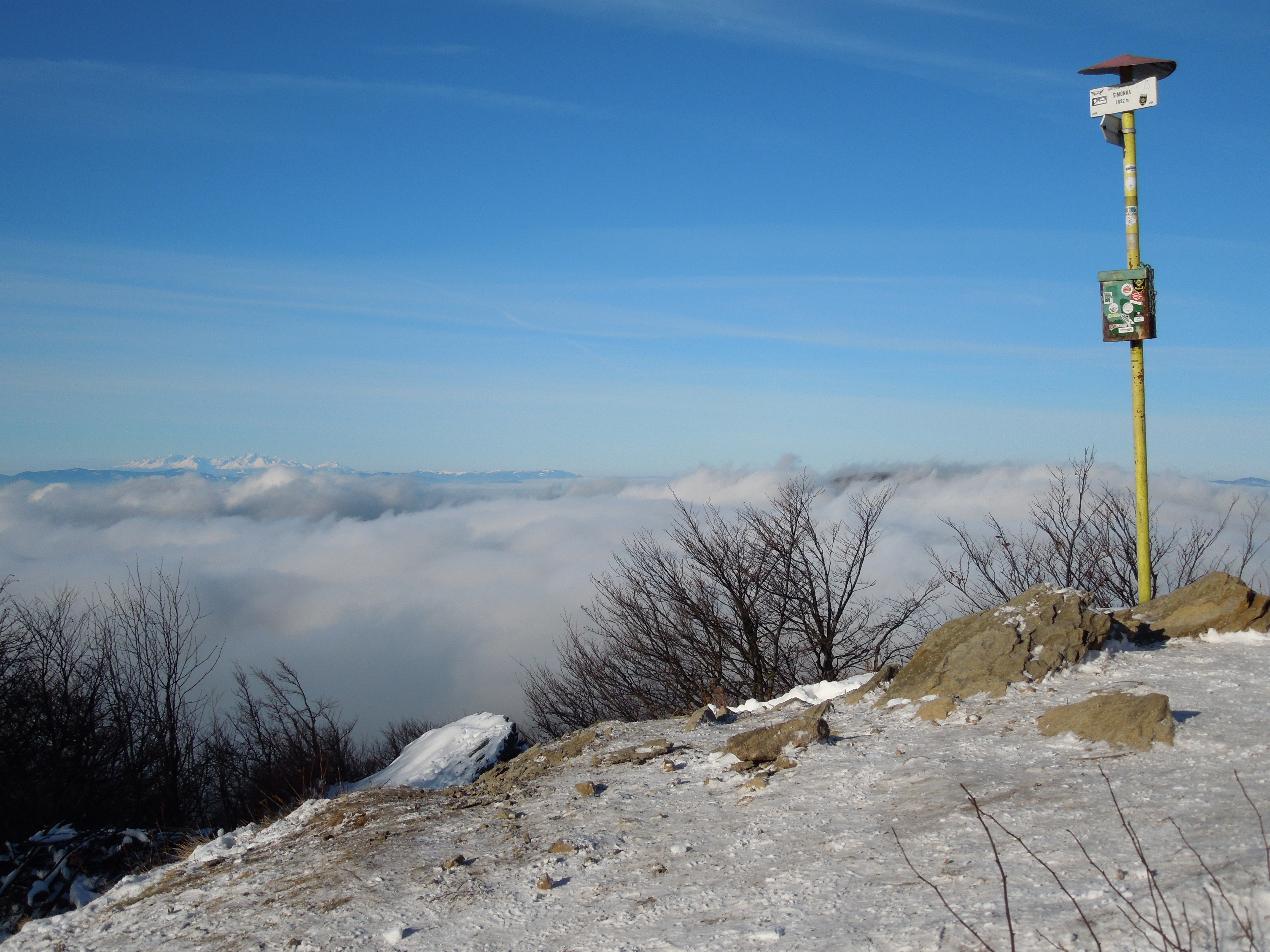 Peak Šimonka in December during the inversion This is a photography of Natura 2000 protected area with ID SKUEV0932